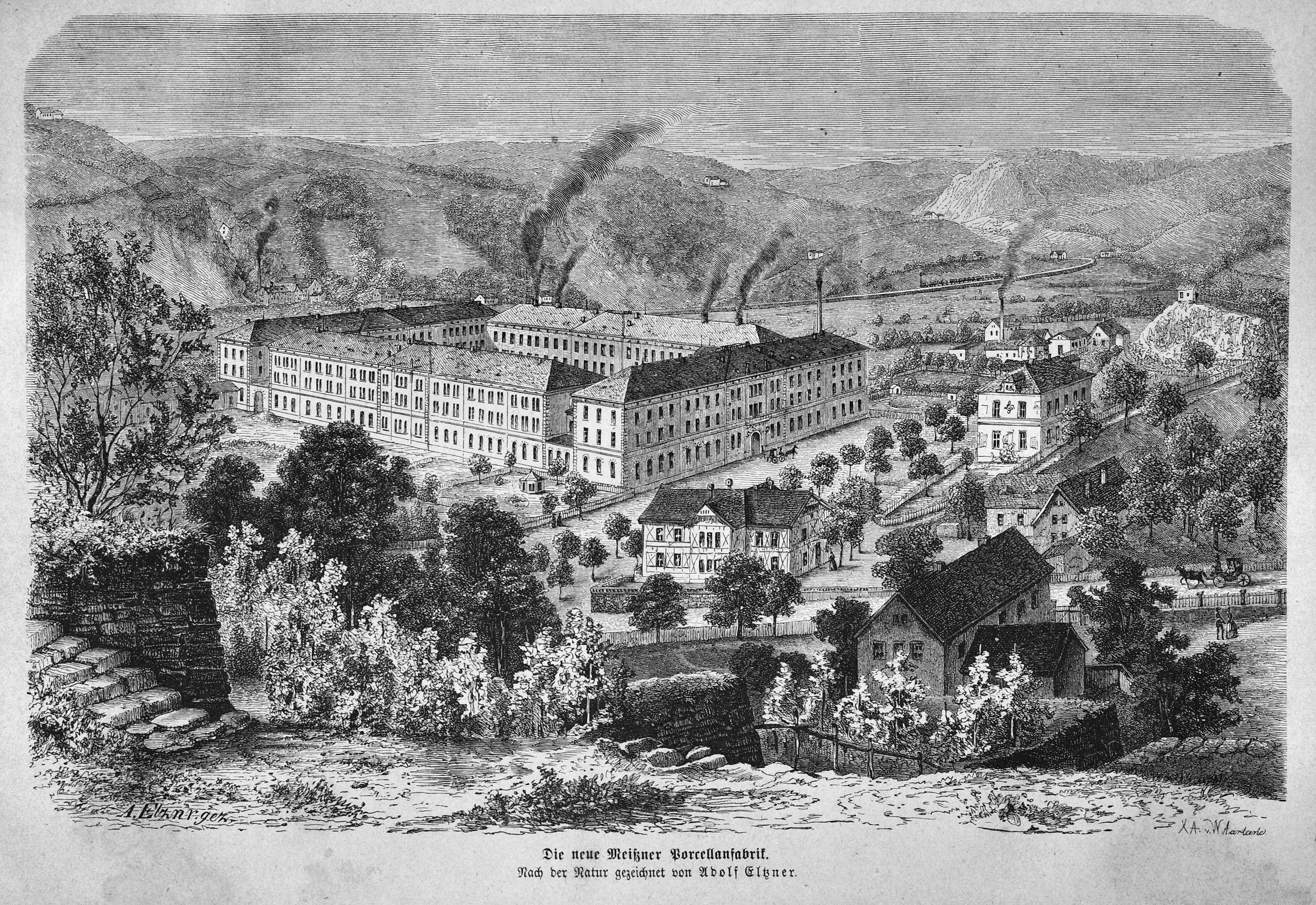 caption: "Die neue Meißner PorcellanfabrikNach der Natur gezeichnet von Adolf Eltzner."